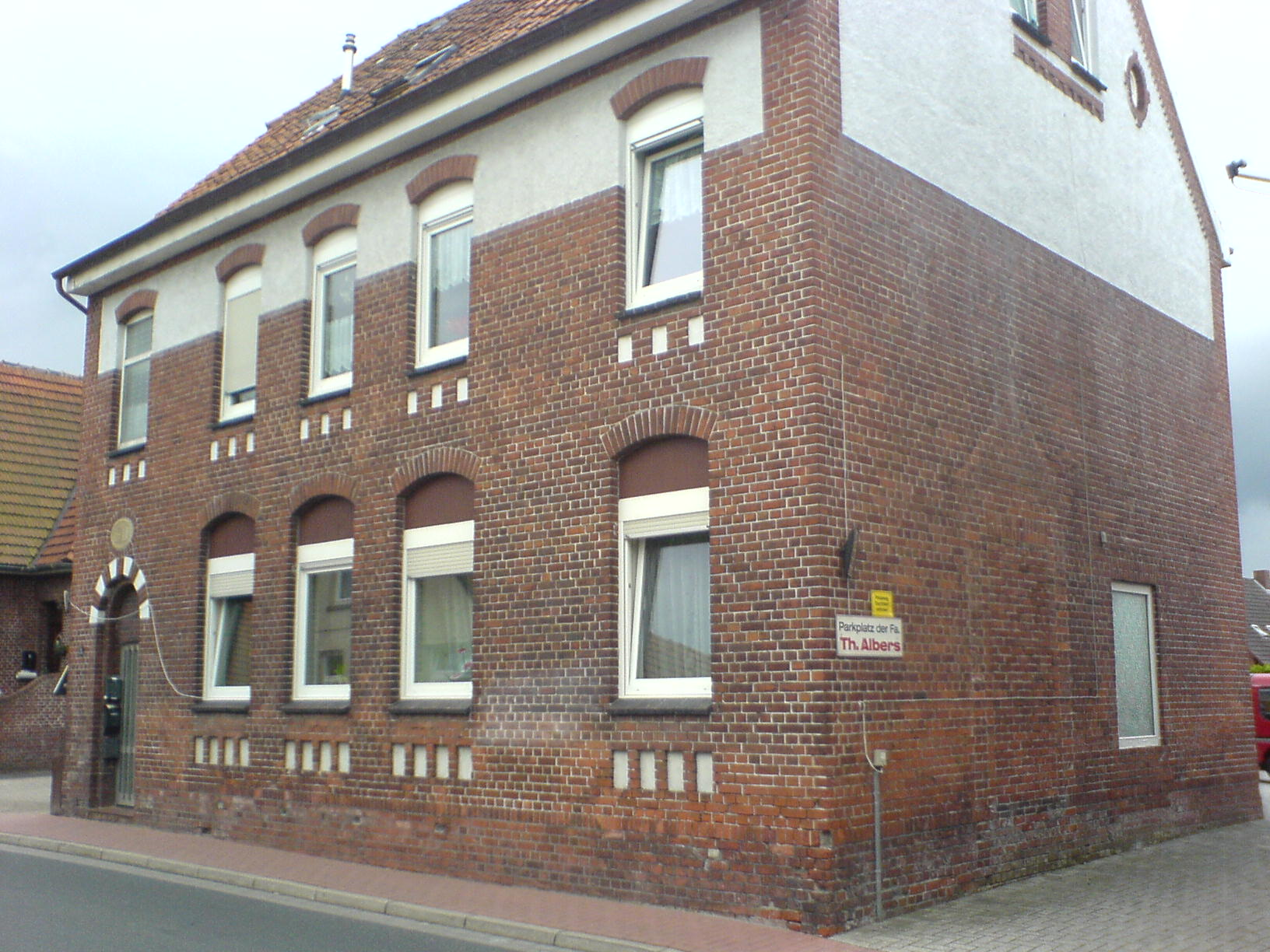 former jewish School in Wittmund